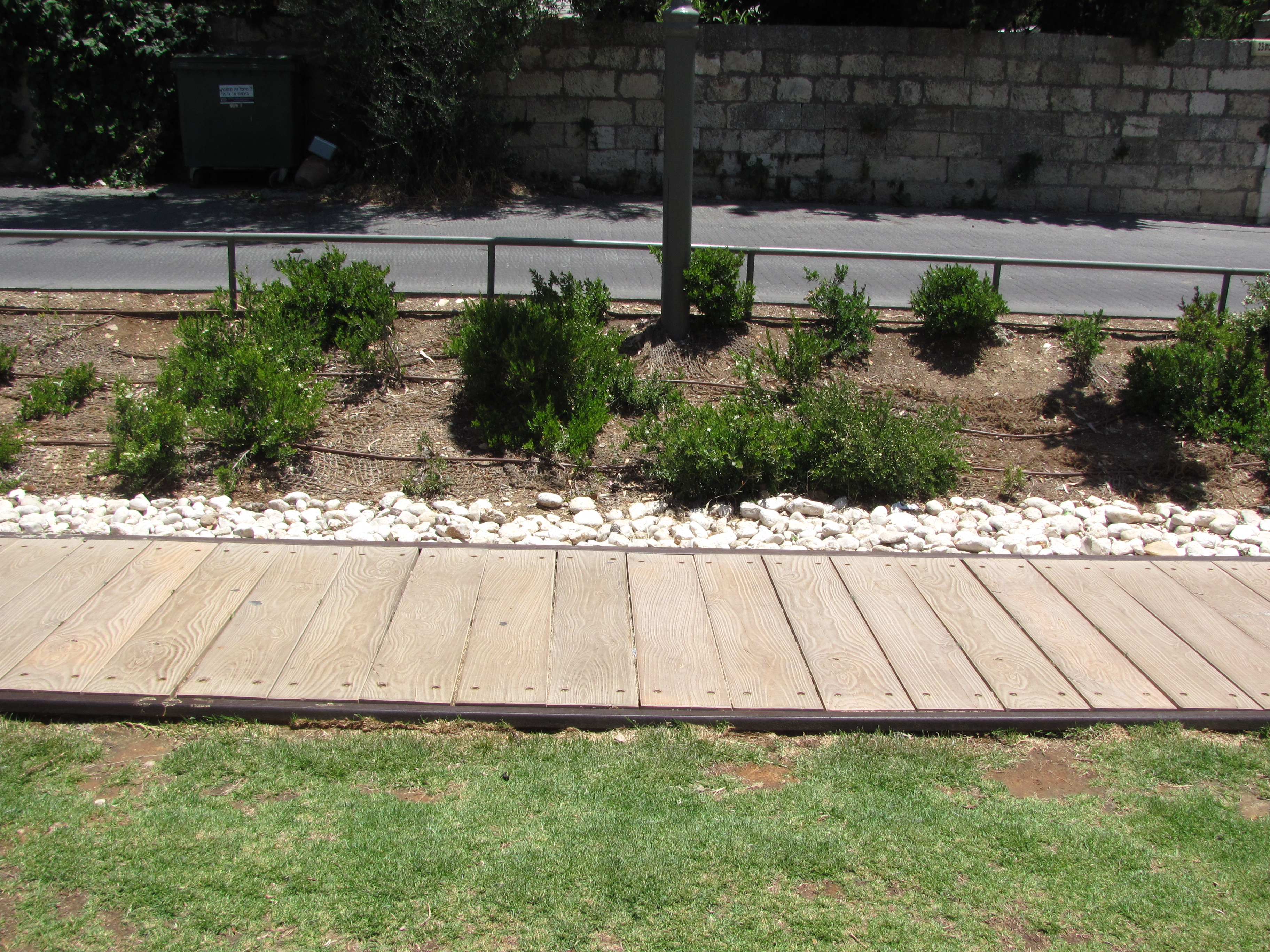 Close-up of concrete-paneled walking path with imitation wood finish, built atop original tracks of the Jaffa-Jerusalem Railway. Train Track Park (Park HaMesila), Jerusalem, Israel.